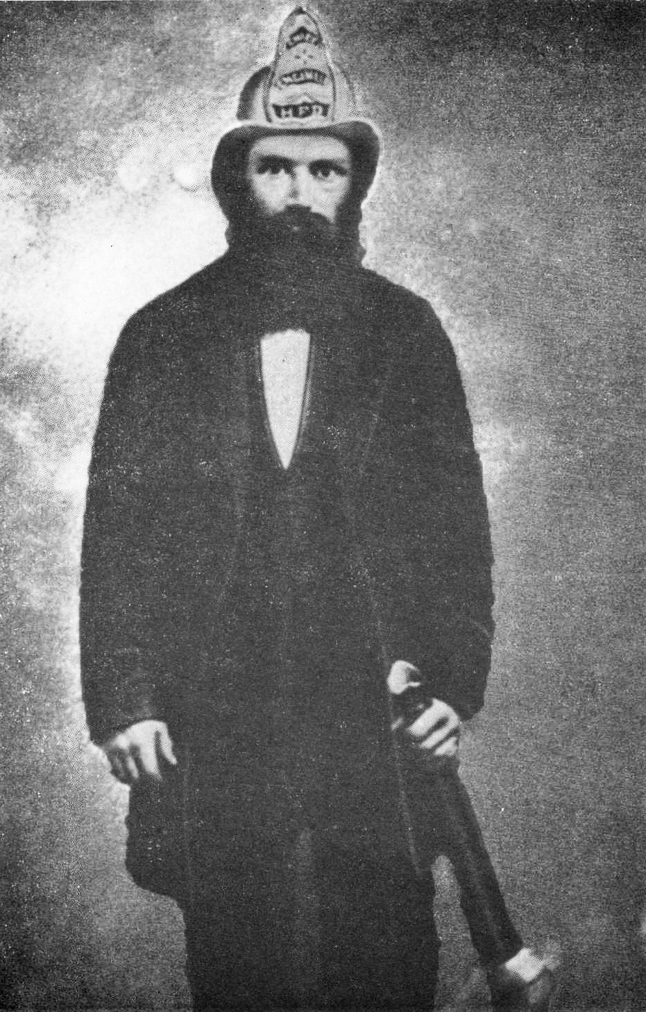 R. B. Neville was fire chief of Honolulu 1863 to 1865. He was later the Sheriff of Kona on the island of Hawaii, and killed in the Kanoa uprising of 1868.